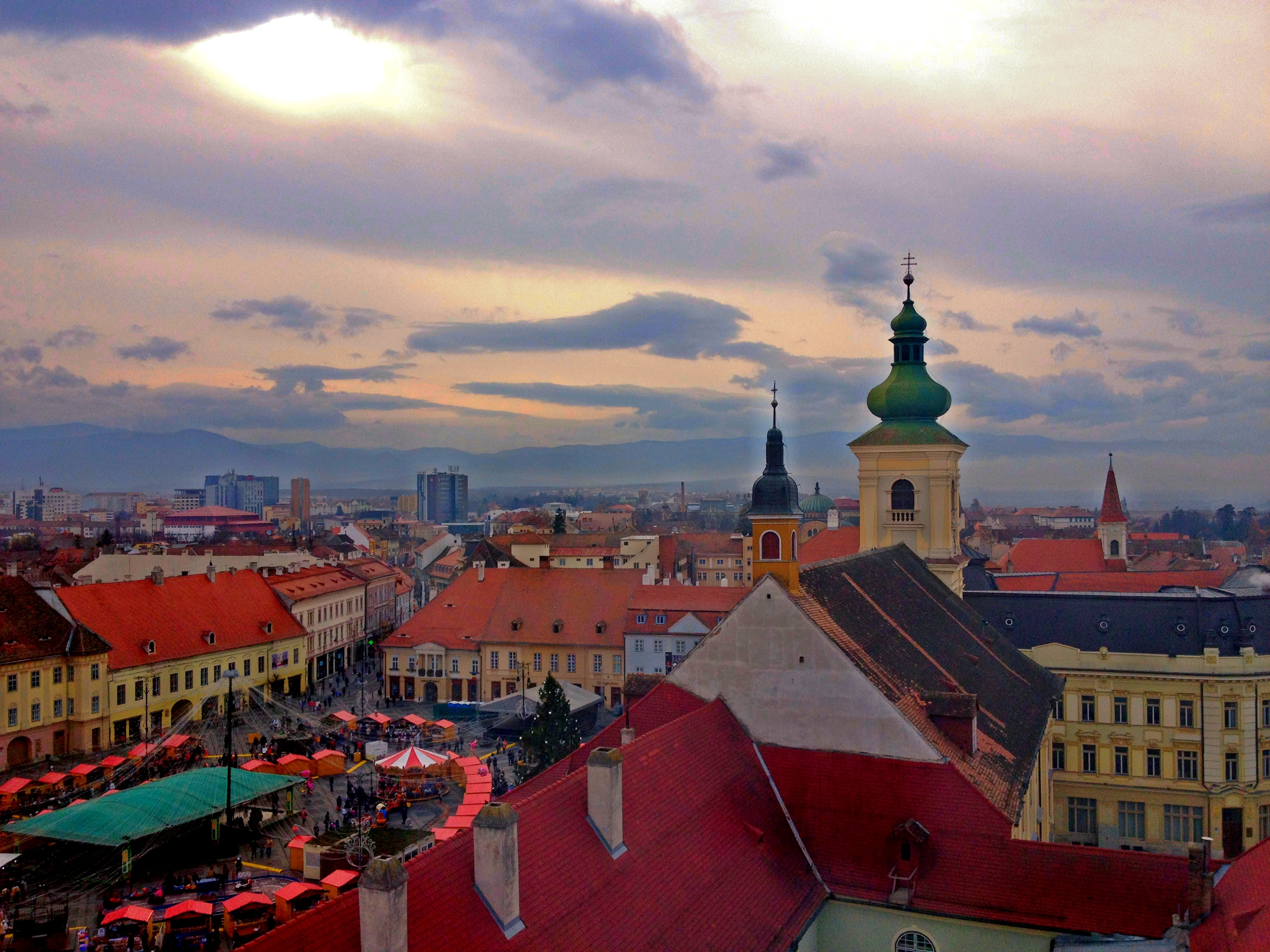 Sibiu (Romanian pronunciation: [siˈbiw], antiquated, Sibiiu